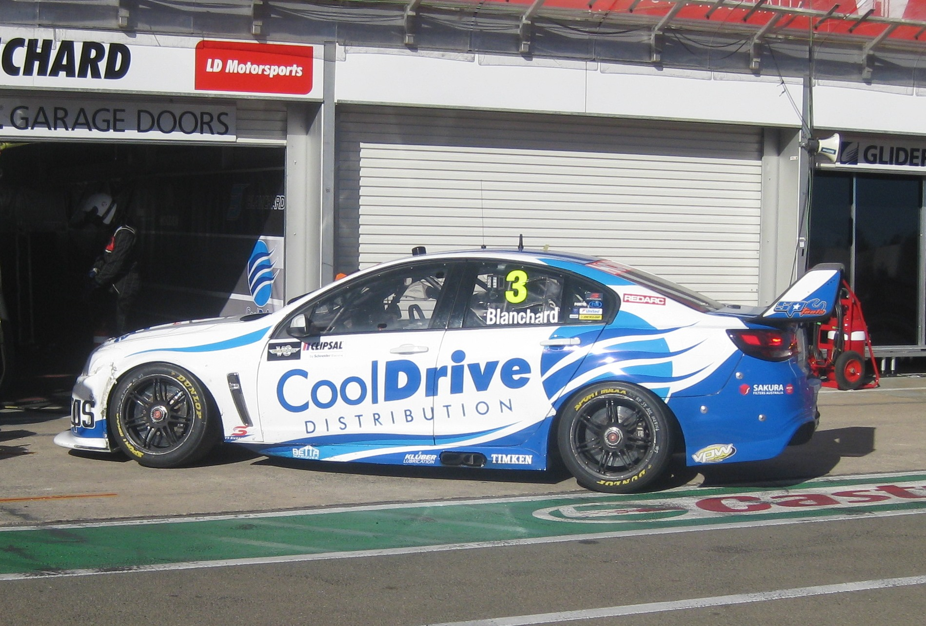 The Holden Commodore (VF) of Tim Blanchard at the 2015 Clipsal 500 Adelaide